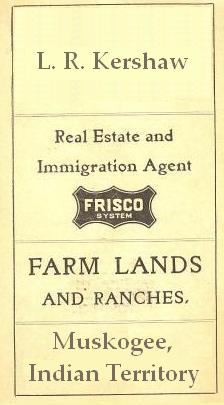 Advertising flyer: L. R. Kershaw, Frisco Land & Immigration Agent, Frisco System, Farm Lands and Ranches, Muskogee, Indian Territory